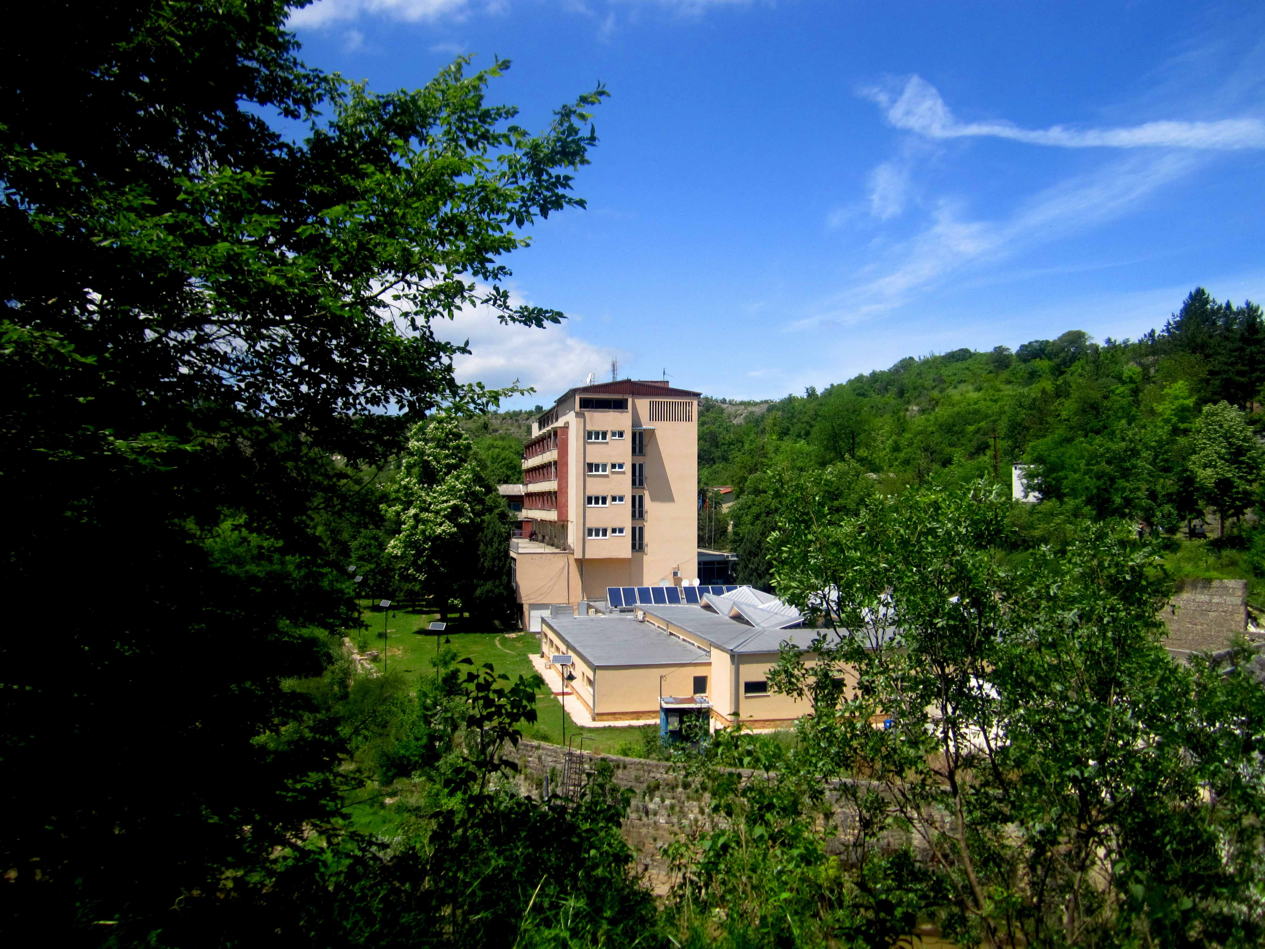 The Katlanovo thermal spa is situated 20 km to away from Skopje, on the Skopje-Veles highway, in the Katlanovo village , the favorable influence of the waters of this spa-resort was recognized for the first time by the Romans, as testified by the remainders of constructions from Roman times found in the area of the spa-resort: obviously the ancient population of this area, also used to exploit the waters, In the complex of the spa-resort, there is a special hospital for rheumatic diseases, with residential and therapeutic departments, equipped with modern devices and instruments, as well as with rooms for physio-therapy and rehabilitation,The waters of Katlanovo spa are believed to be curative of many rheumatic diseases, neurological and orthopedic diseases, chronic diseases of the digestive organs, of kidneys and of the urinary tract, diabetes in mild forms, as well as chronic gyneacological diseases.